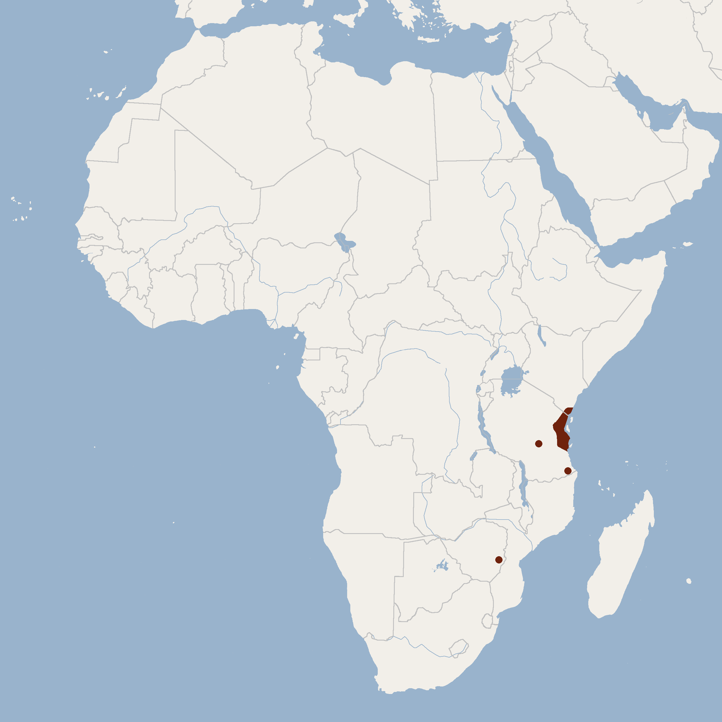 According to Happold & Happold, 2013